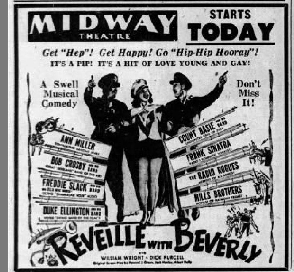 Midway Theater advertisement for the American musical film Reveille with Beverly (1943) - 29 Apr. 1943 Morning Call, Allentown PA